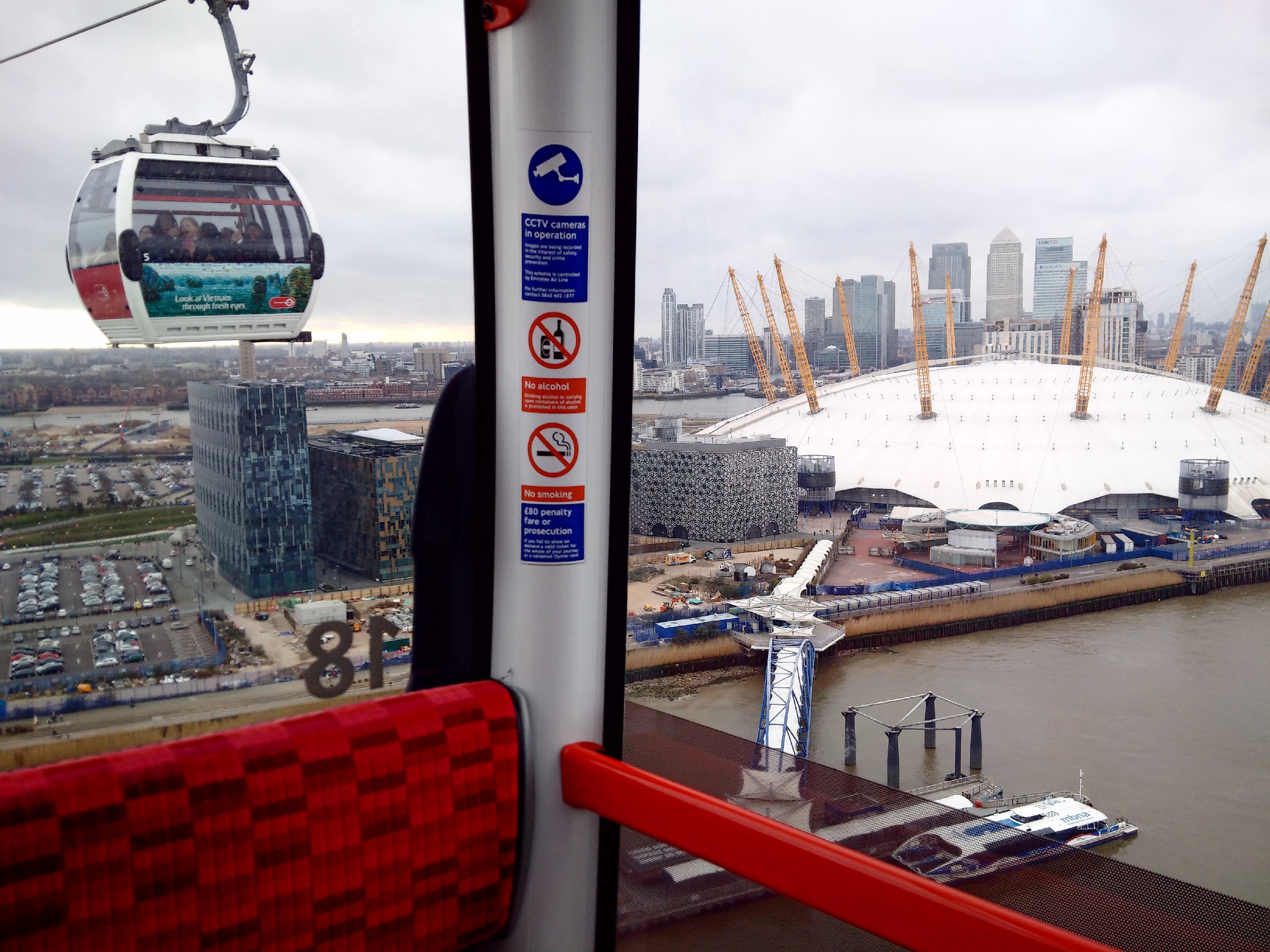 East London cable car (view towards entertainment district on the Greenwich peninsula, 2015).